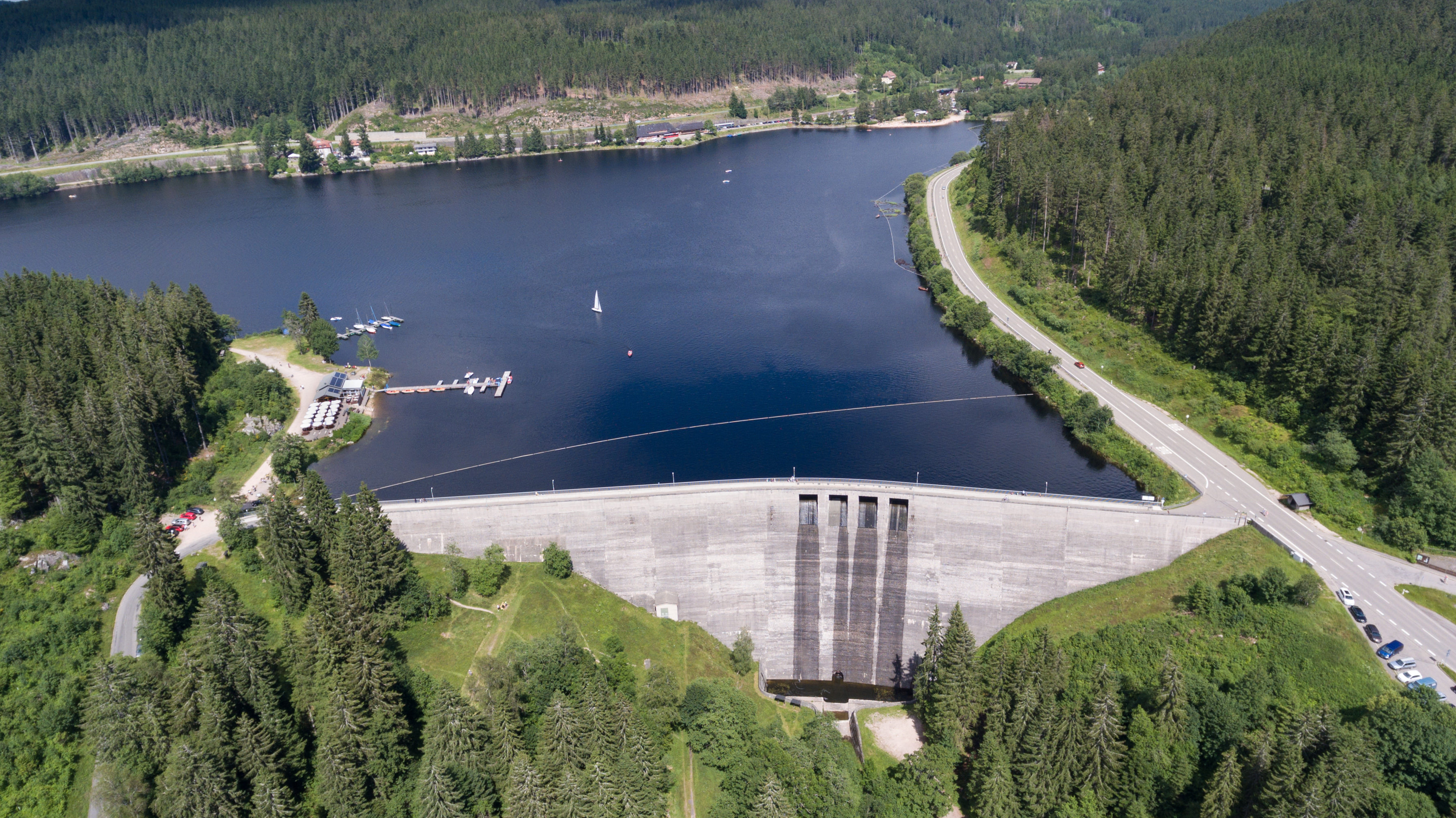 Aerial Schluchsee dam